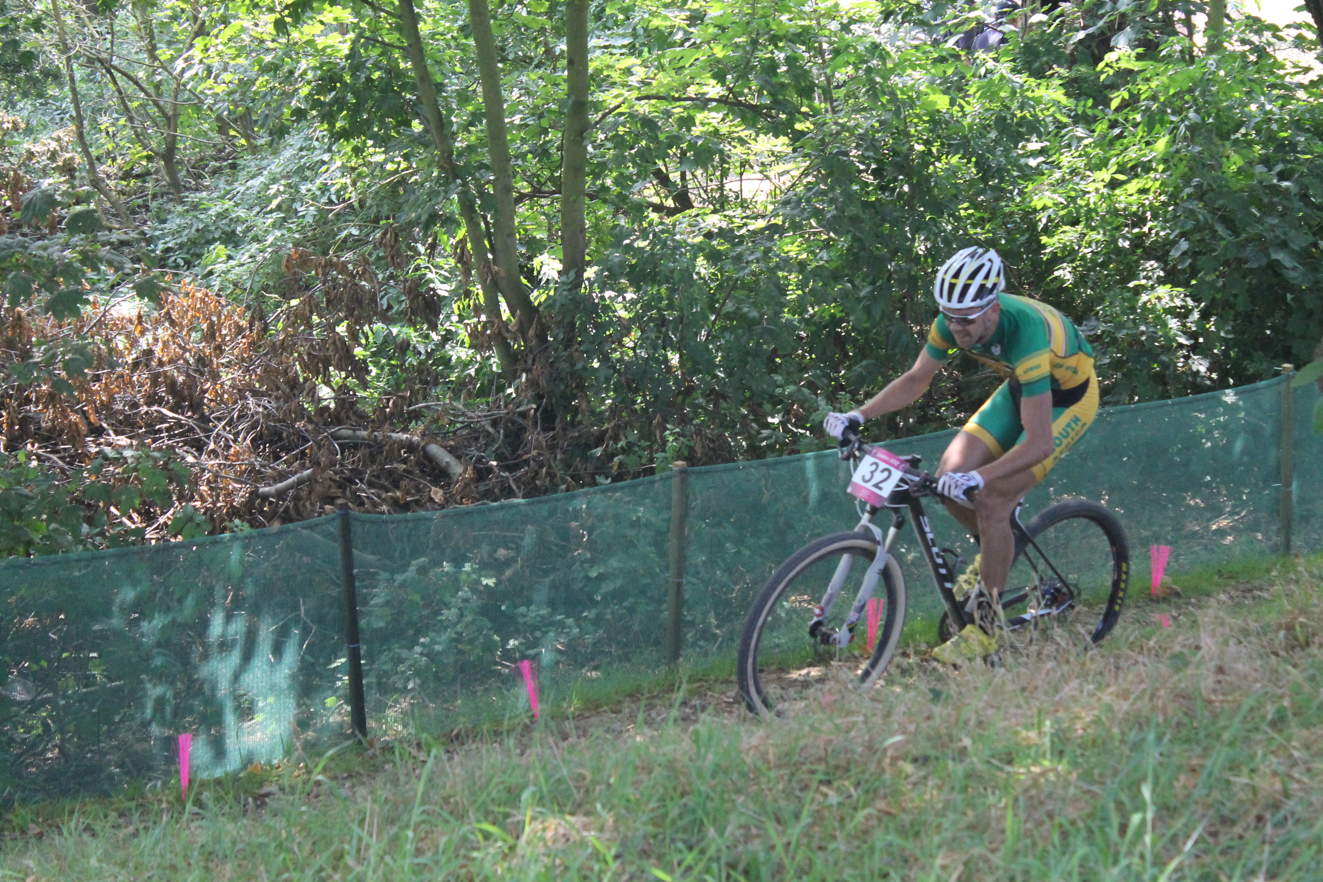 Cycling at the 2012 Summer Olympics – Men's cross-country Philip Buys (32) (RSA) IMG_4166